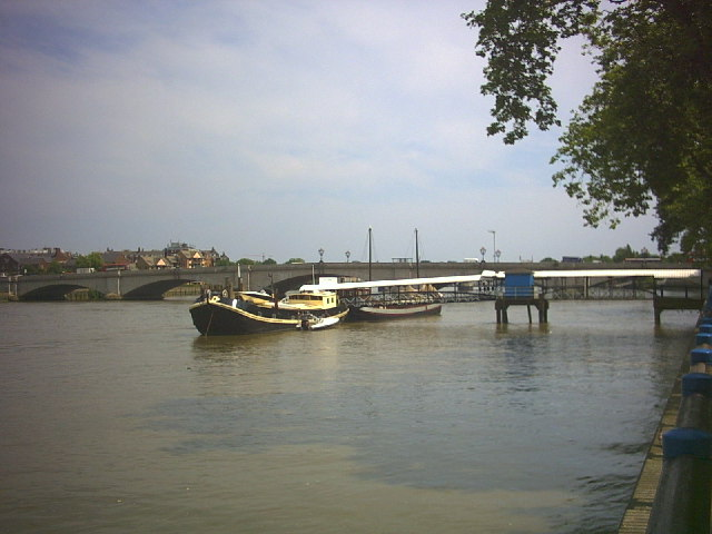 Putney Bridge. From south bank, upstream. Putney Pier in foreground.